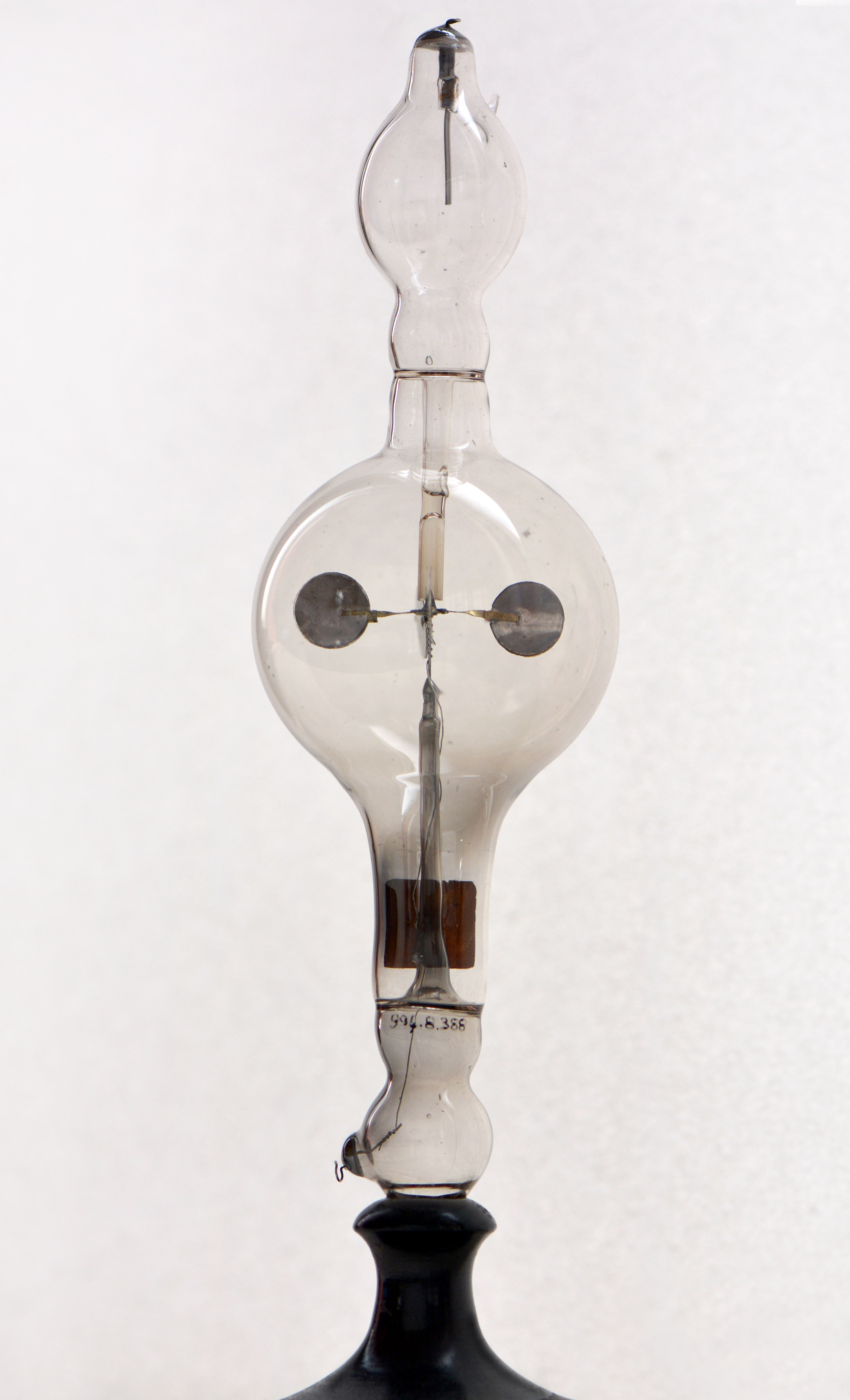 Crookes radiometer (or light mill), consists of an airtight glass bulb, containing a partial vacuum. Inside are a set of vanes which are mounted on a spindle. The vanes rotate when exposed to light, with faster rotation for more intense light, providing a quantitative measurement of electromagnetic radiation intensity.This radiometer has been enhanced to associate an electrical measuring device